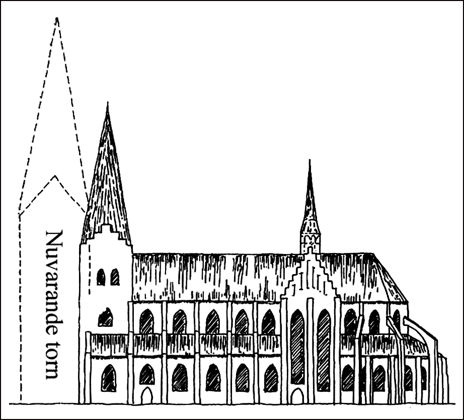 Drawing of St. Peter church, Malmo, Sweden.